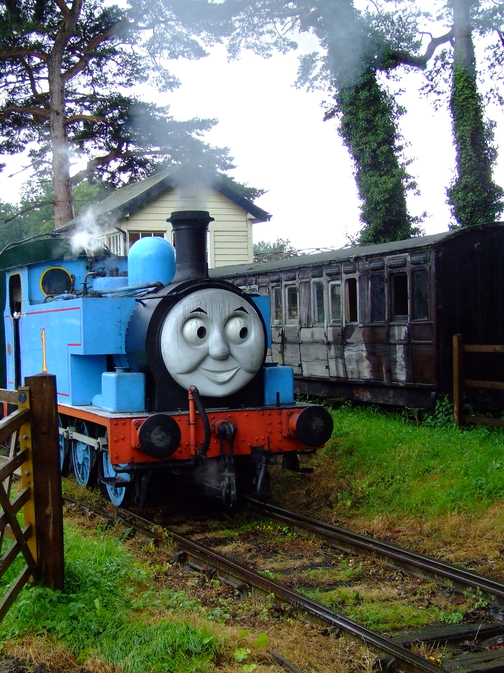 Thomas tank engine day, Bressingham